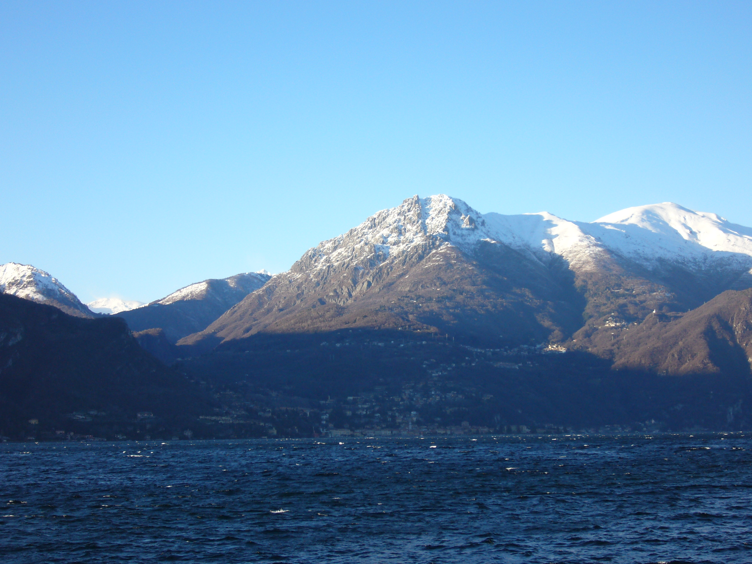 View from Bellagio - Italy of the alps